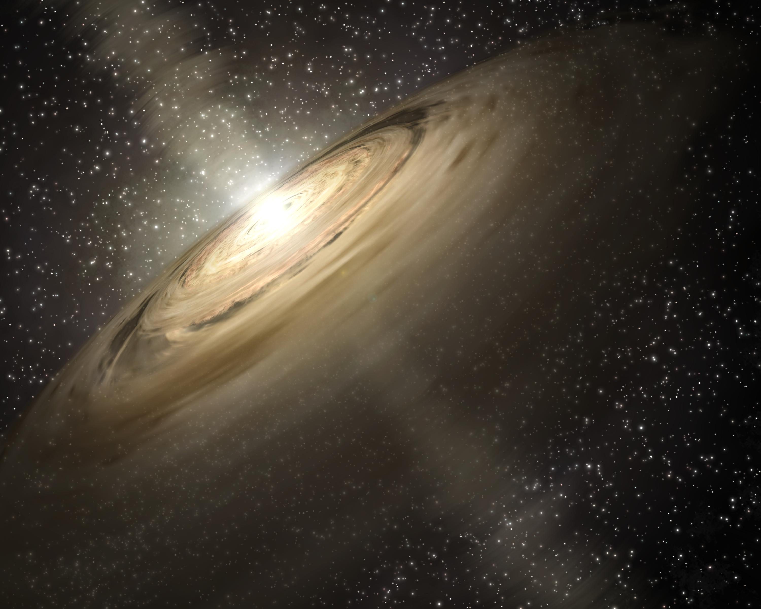 This artist's concept illustrates a solar system that is a much younger version of our own. Dusty disks, like the one shown here circling the star, are thought to be the breeding grounds of planets, including rocky ones like Earth. Astronomers using NASA's Spitzer Space Telescope spotted some of the raw ingredients for DNA and protein in one such disk belonging to a star called IRS 46. The ingredients, gaseous precursors to DNA and protein called acetylene and hydrogen cyanide, were detected in the star's inner disk, the region where scientists believe Earth-like planets would be most likely to form.